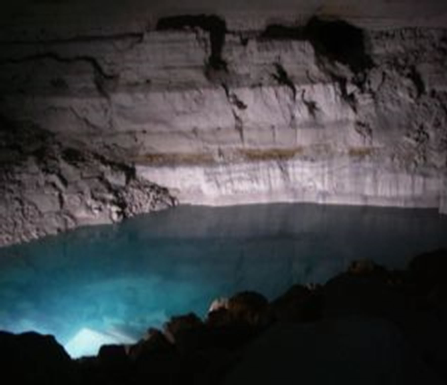 Pool in Ayyalon cave, Israel